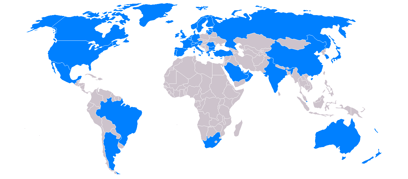 Members of the Financial Action Task Force on Money Laundering map.